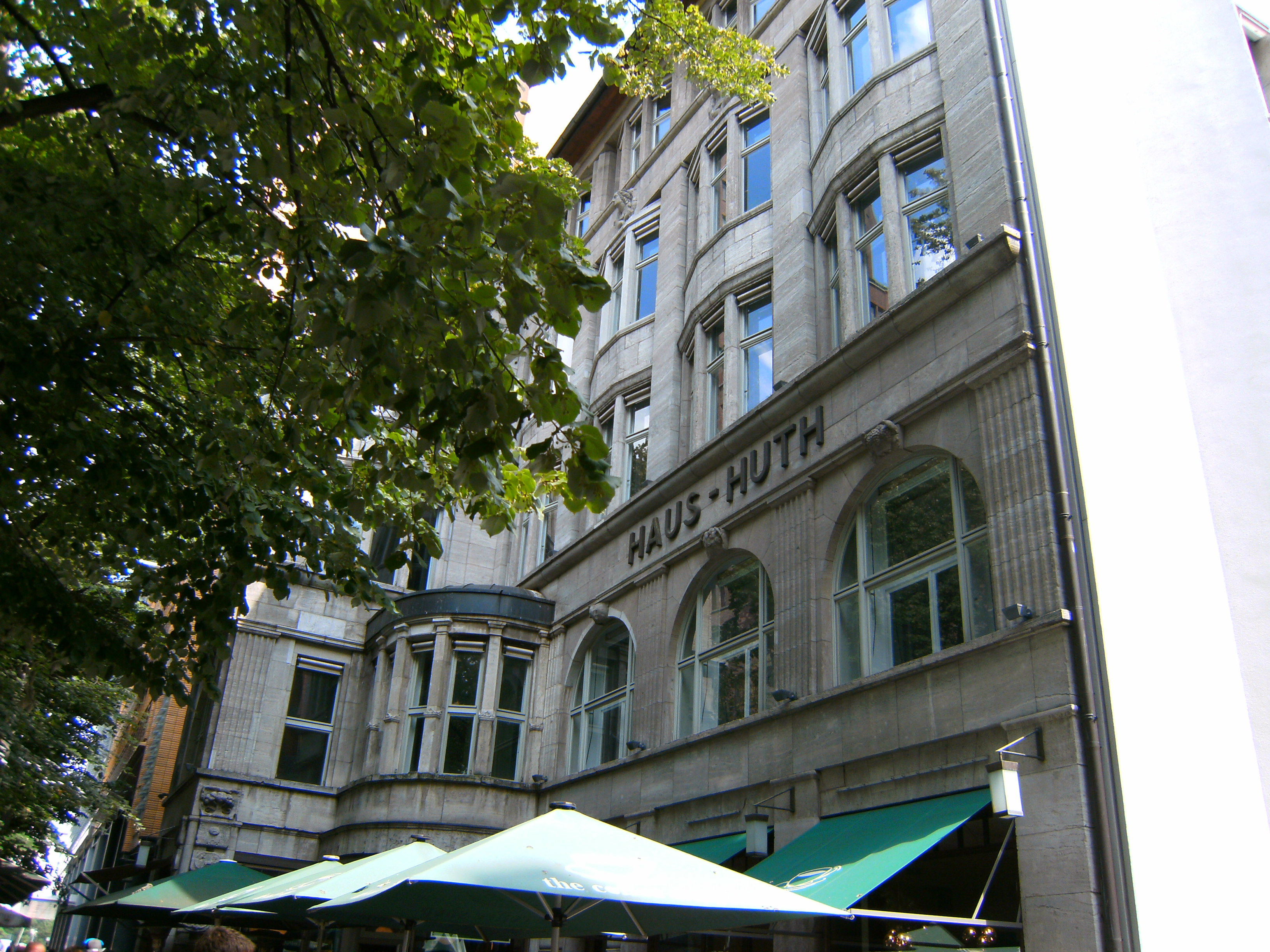 Haus (house) Huth in the Alte Potsdamer Straße 5 in Berlin (near Potsdamer Platz).